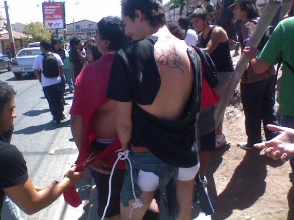 definicion de mechoneo